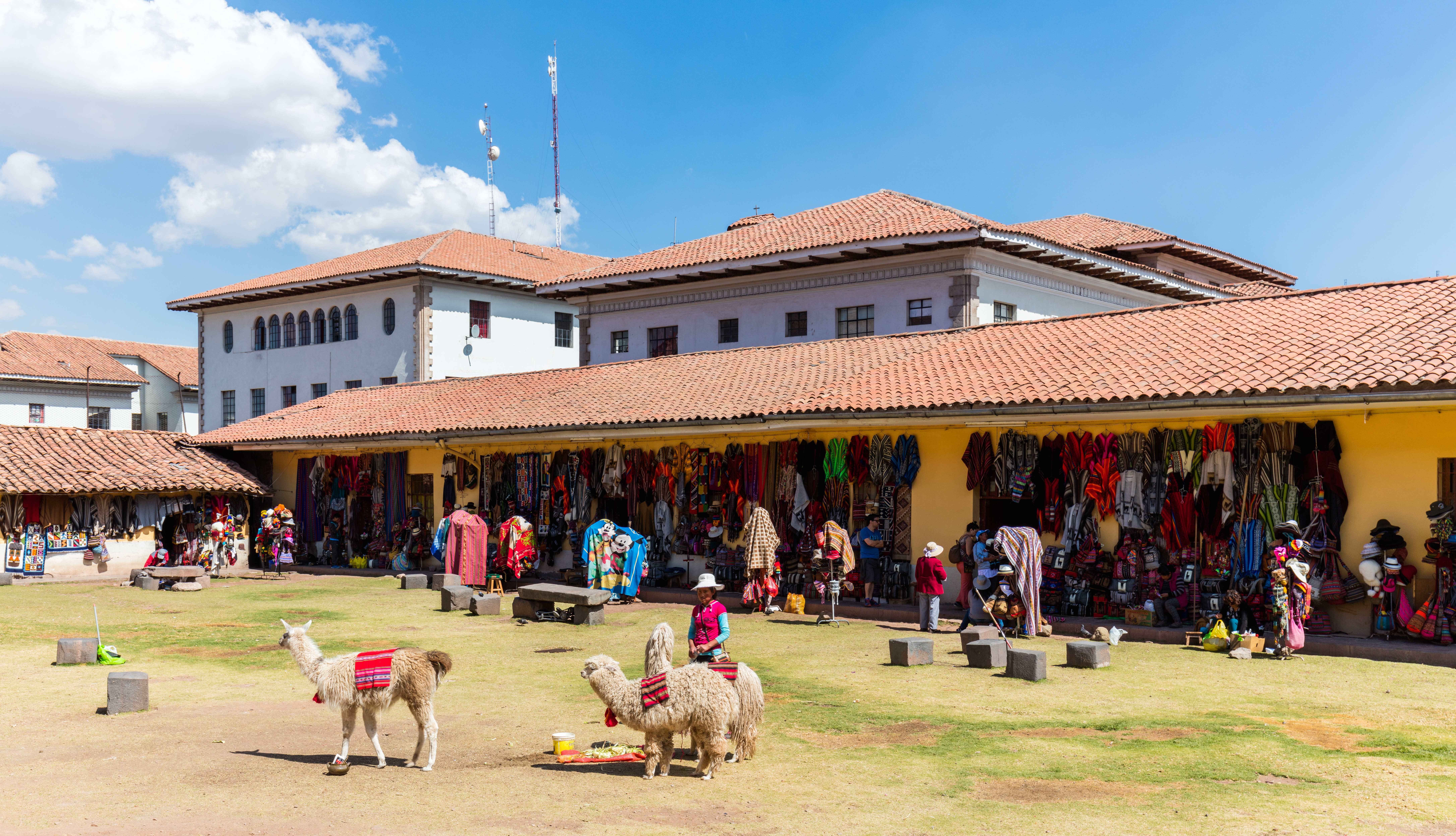 Square near St Catalina church and covent, Cusco, Peru